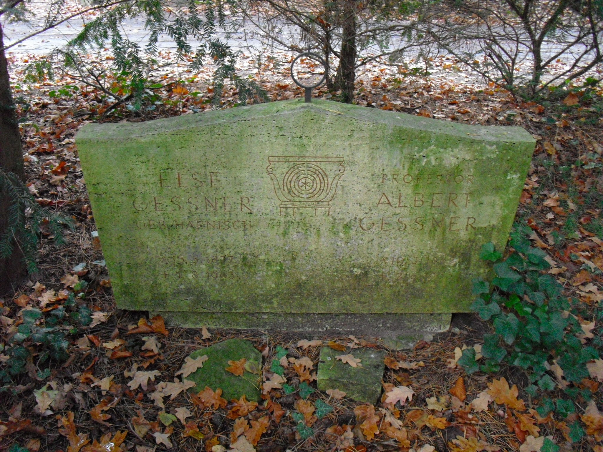 Grave of architect Albert Gessner in Friedhof Heerstraße in Berlin-Westend